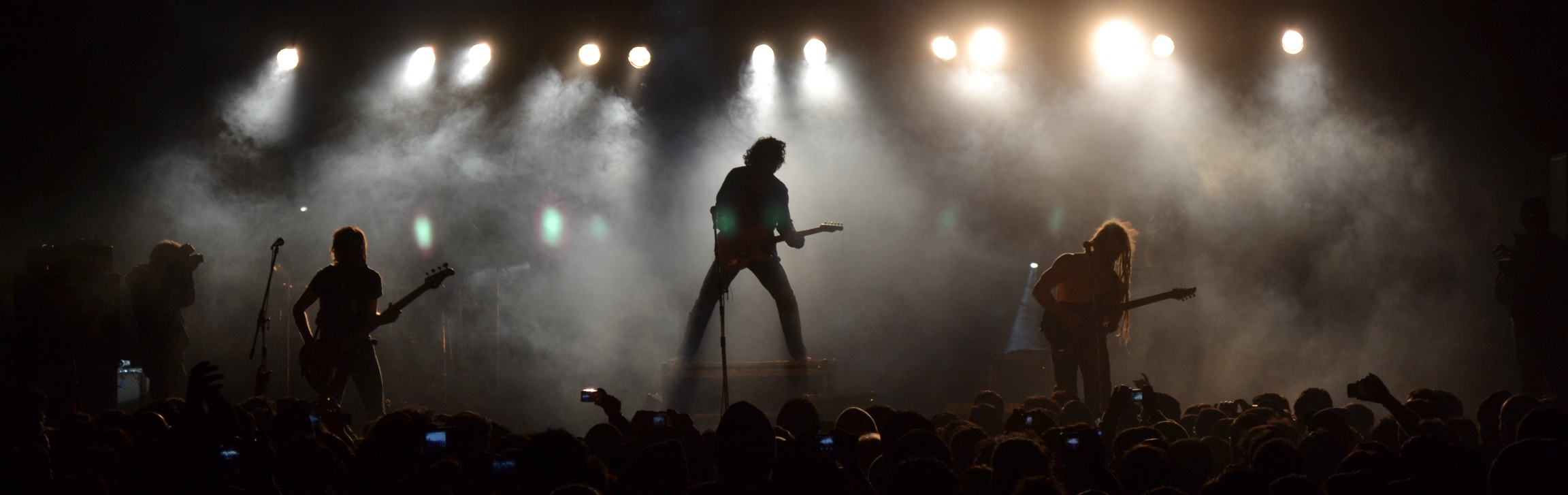 Pain of Slavation's performance at Manfest 2011